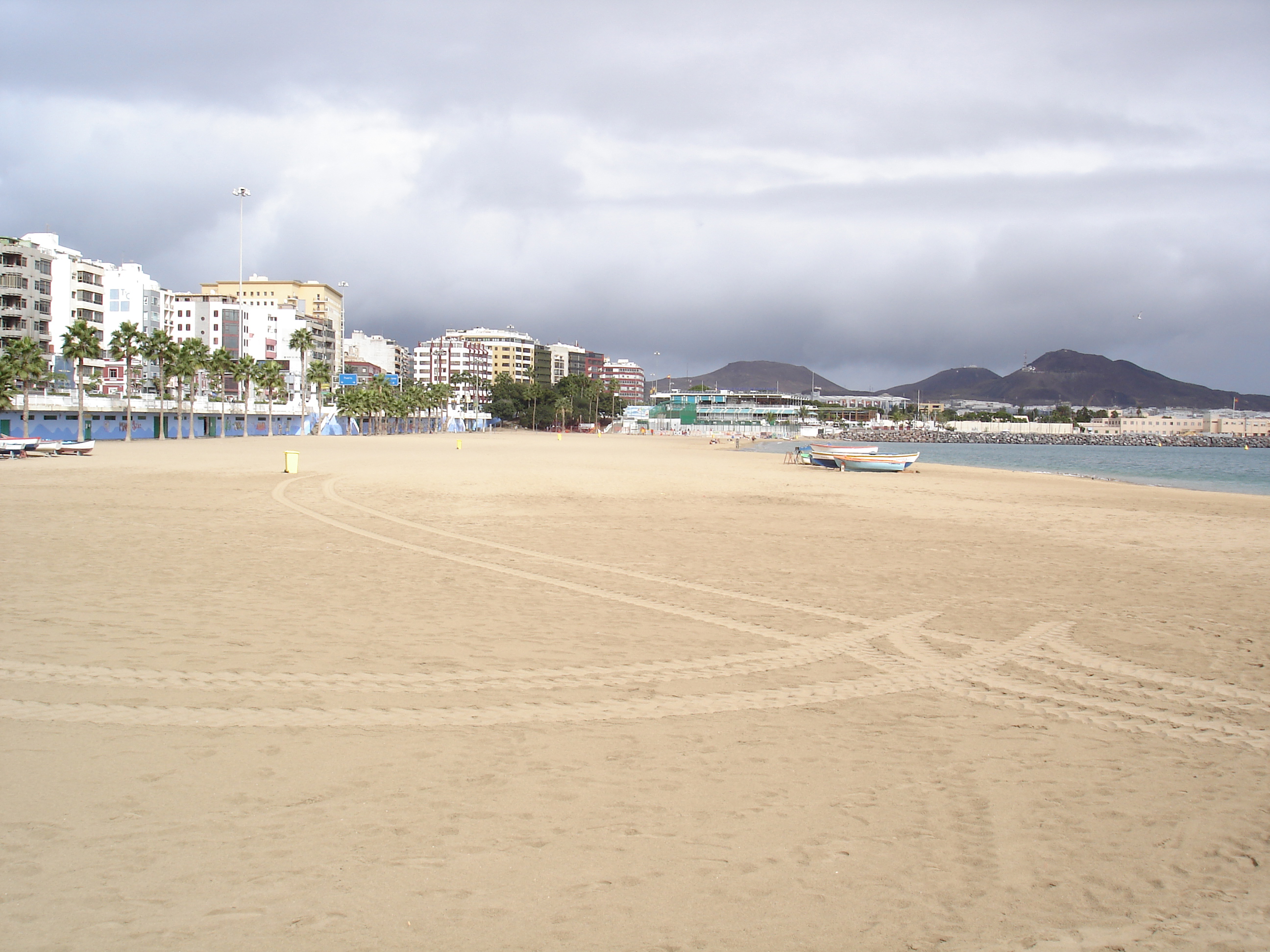 Las Alcaravaneras Beach. Las Palmas de Gran Canaria (Canary Islands, Spain).